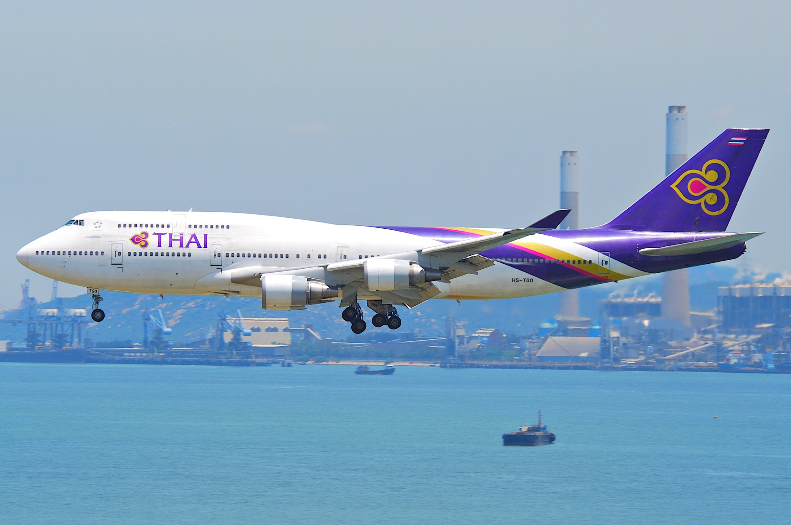 Boeing 747-4D7 HS-TGO of Thai Airways on final approach at Hong Kong International Airport. See also : File:Thai Airways International Boeing 747-400; HS-TGO@HKG;04.08.2011 615gq (6207801318).jpg